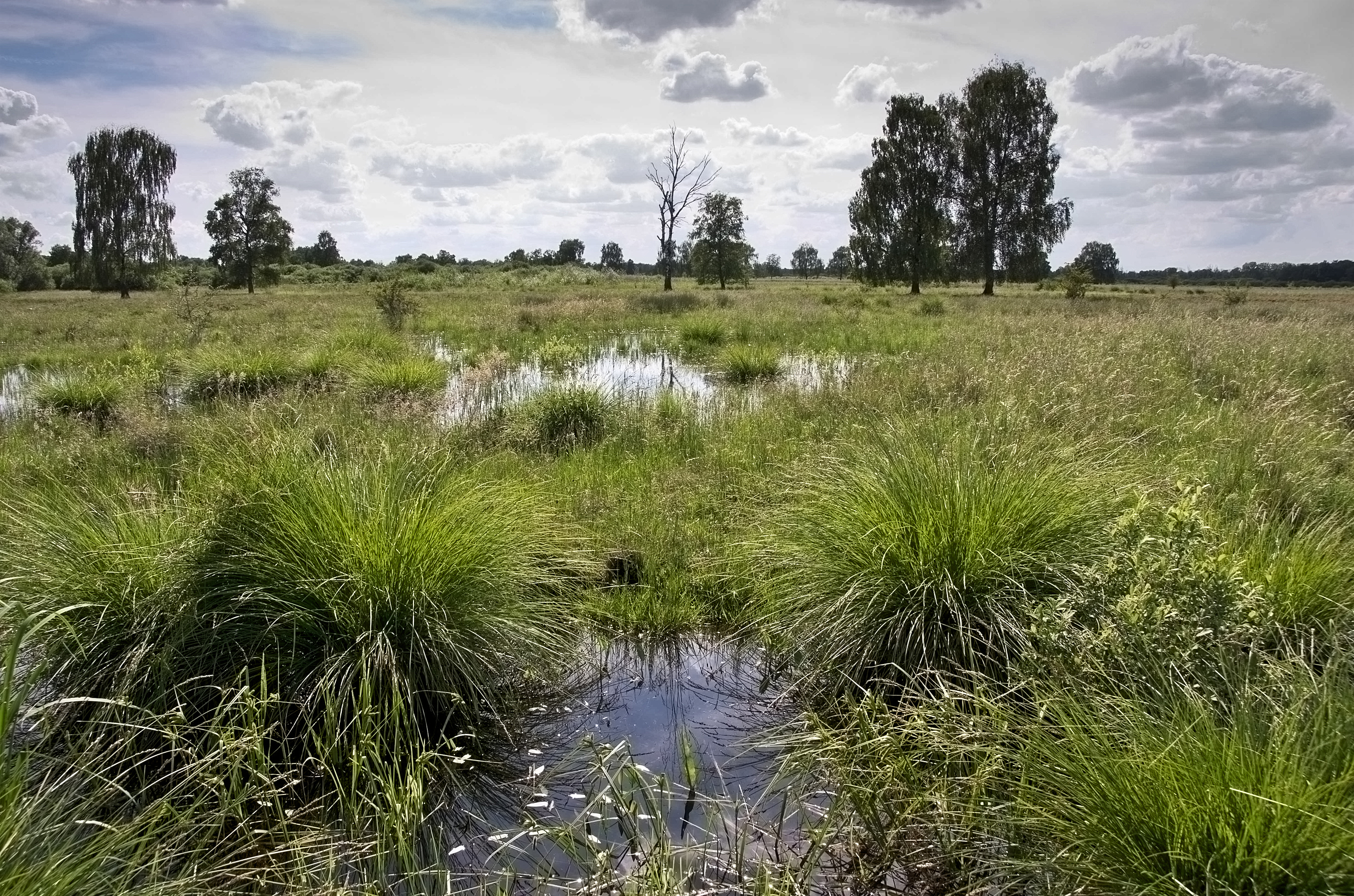 Naturschutzgebiet (NSG) „Leipheimer Moos“, Swabia (Bavaria), Bavaria. An ecological NGO „ARGE Donaumoos, Leipheim”, achieved, that the Naturschutzgebiet was waterlogged again. Since 2011 a pipe with water from river Nau (small tributary to the Danube) may rise the drastically fallen groundwater level again.